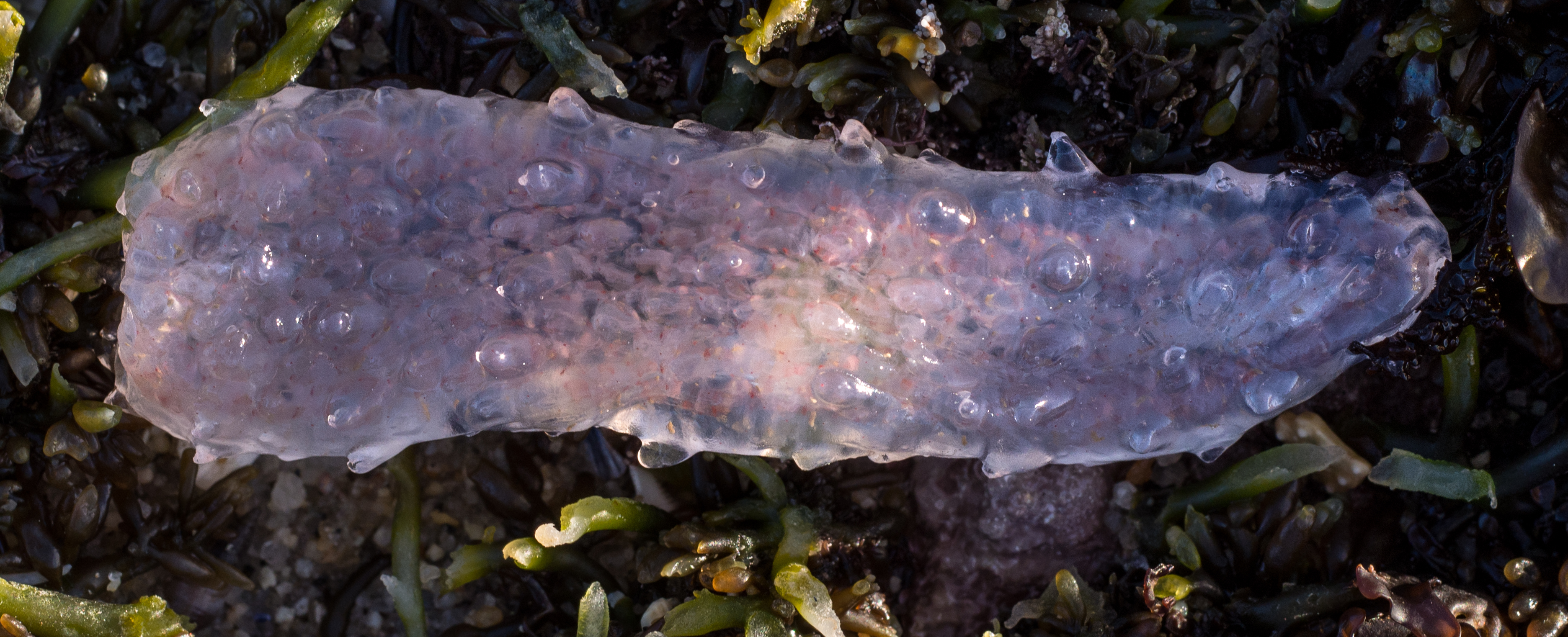 Pyrosoma atlanticum, a pelagic tunicate -- a colony of zooids in a gelatinous "tunic". Found this by a tide pool at Point Pinos.